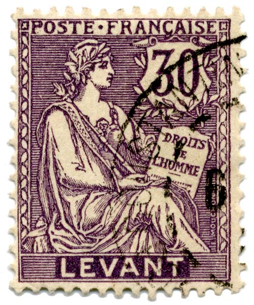 Scan of French post offices in the Turkish Empire 30-centime stamp of 1903